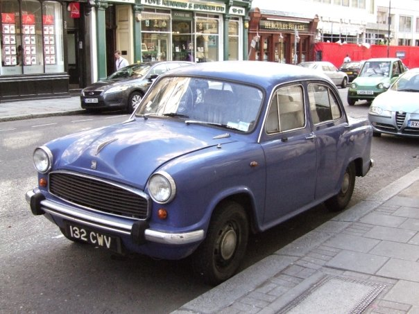 1993 Hindustan Ambassador 1800 ISZ in Morris Oxford Livery, Longacre, London WC2. These UK cars received smaller turn signals up front.